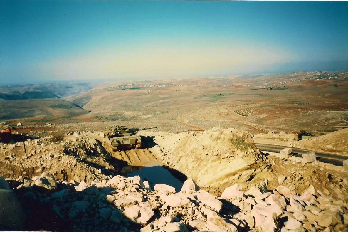 טנק בעמדה דרום-מערביתשל מוצב הבופור בדר"כ בשעות האלה היה זה ליווי לשיירות. העמדה חולשת על על הבקעה בה הכפרים תיבנית נאבטייה וחלק מארנון (התמונה צולמה על ידי עופר מרגלית)